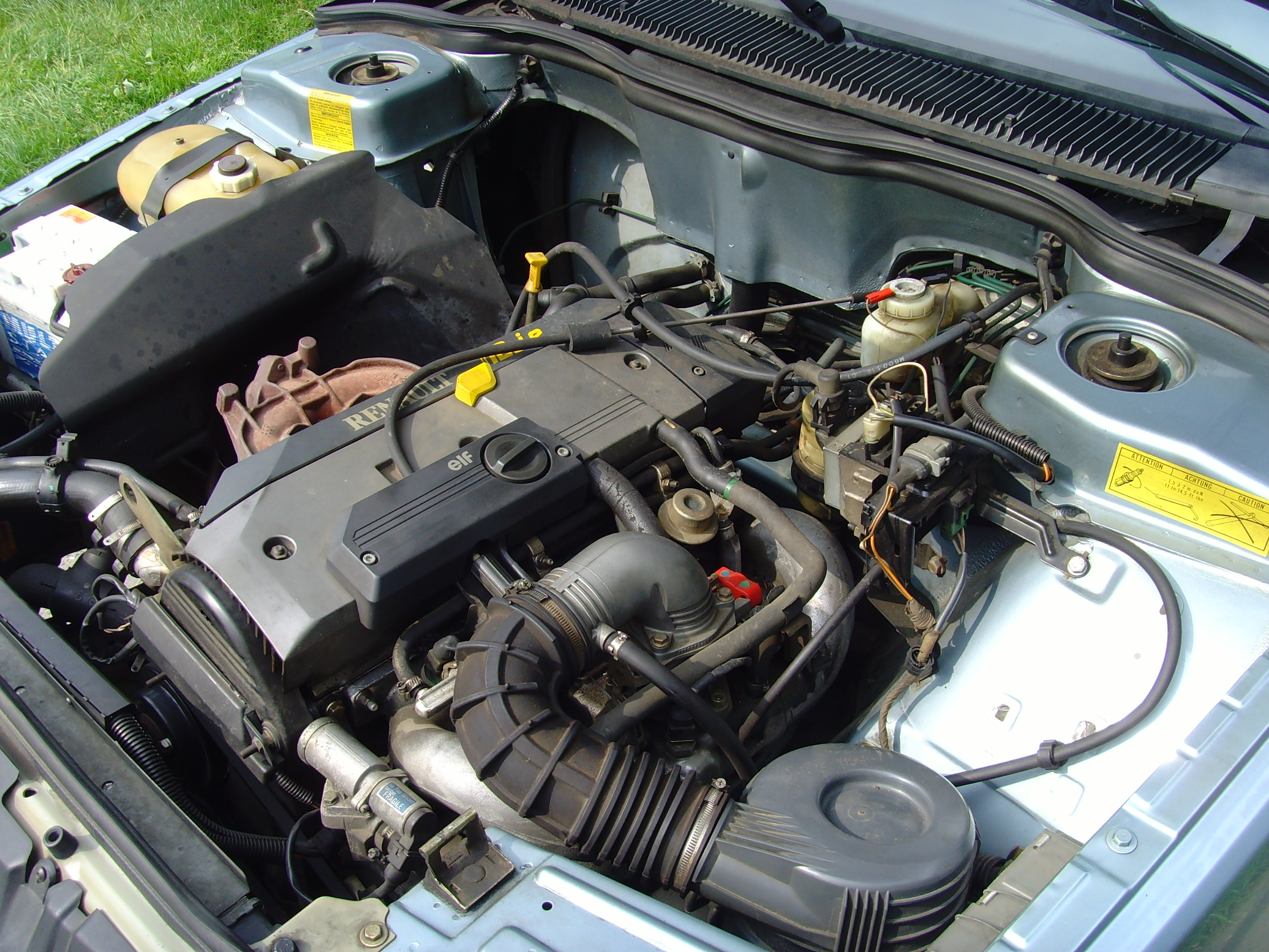 The J7R engine of a Renault 25 TI